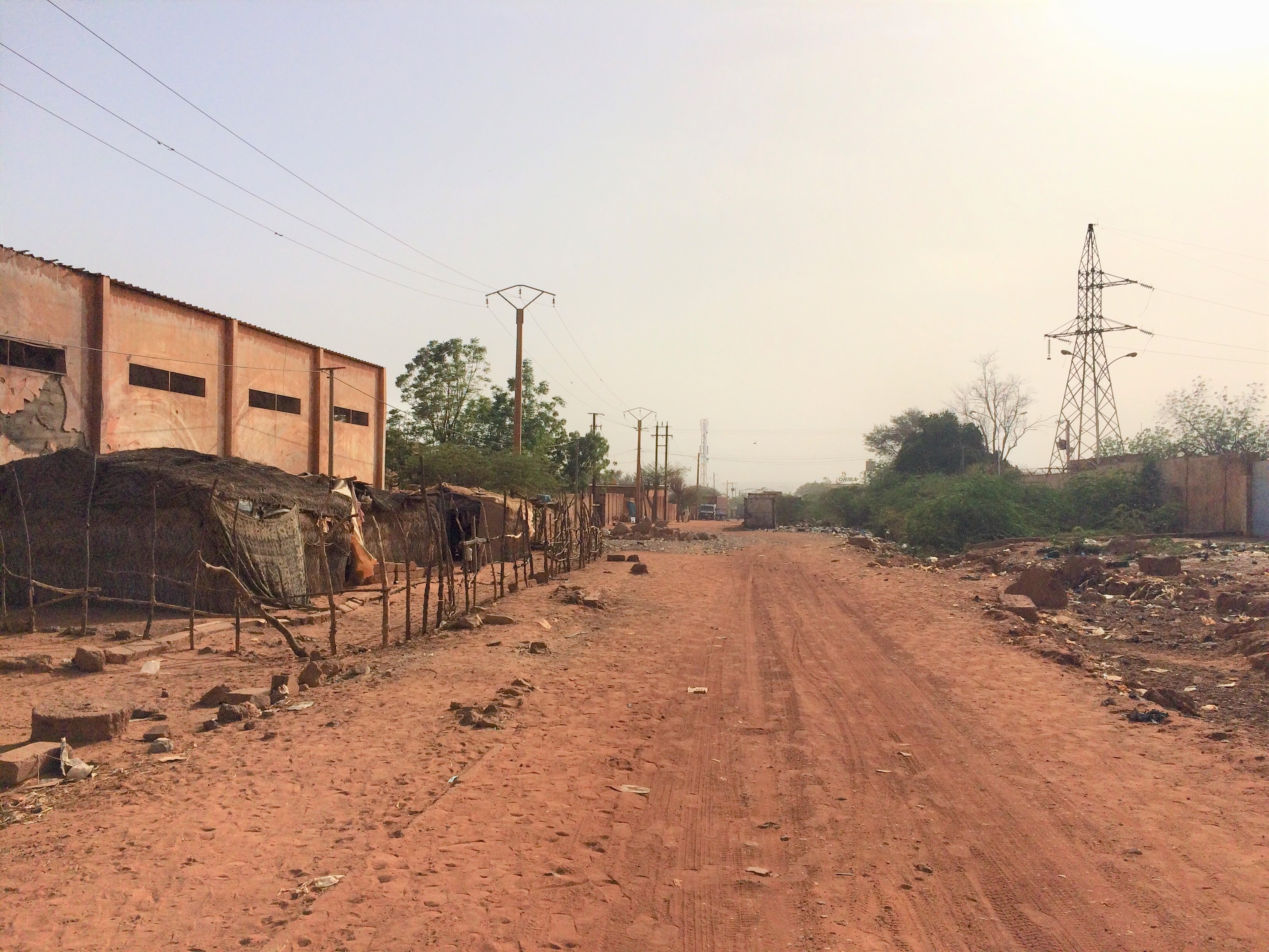 Avenue d'Akokan (Akokan Avenue, Rue ZI-7) in the industrial zone in Niamey, Niger.